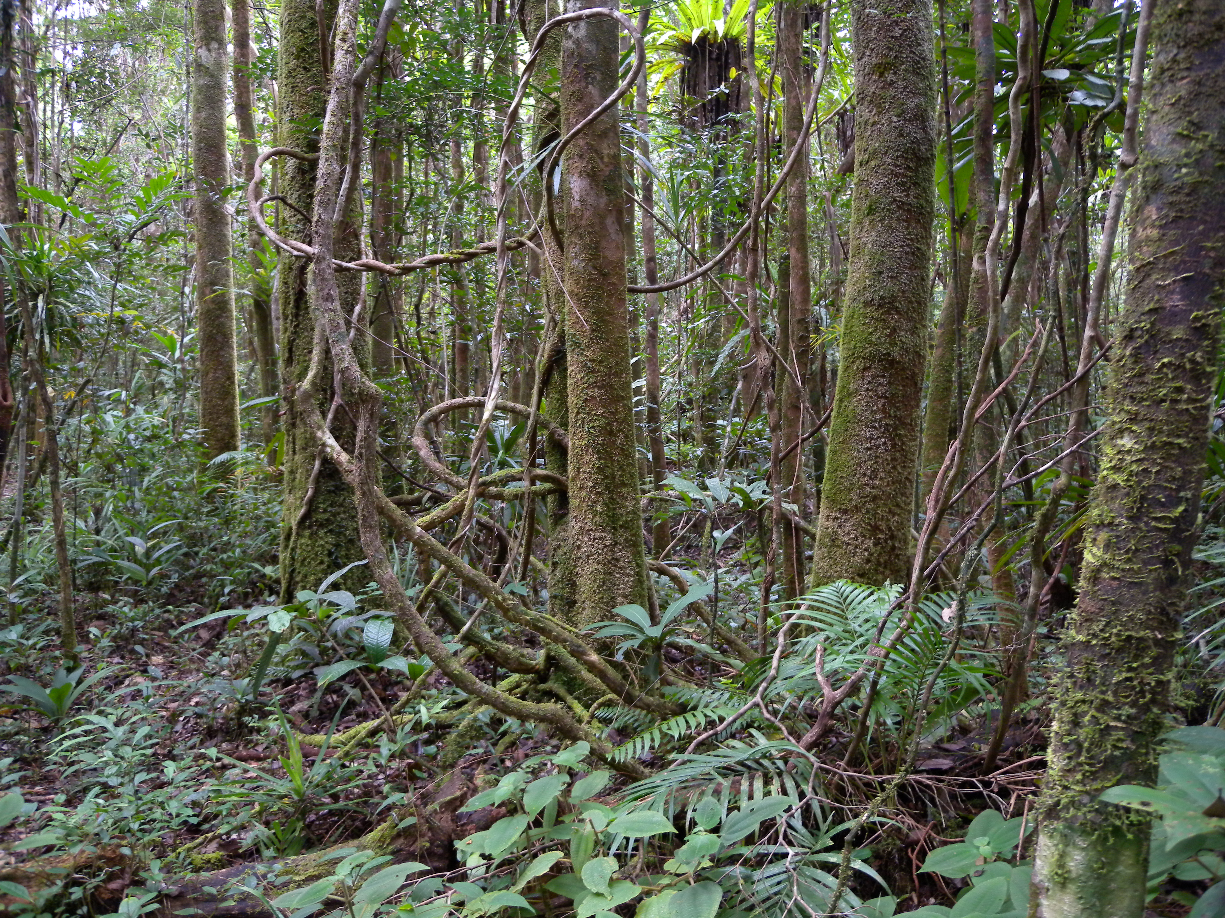 Lowland Rainforest, Masoala National Park, Madagascar